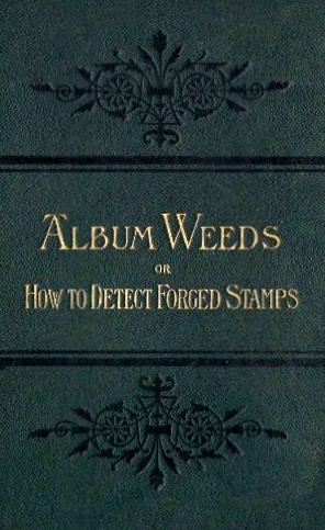 1906 book cover